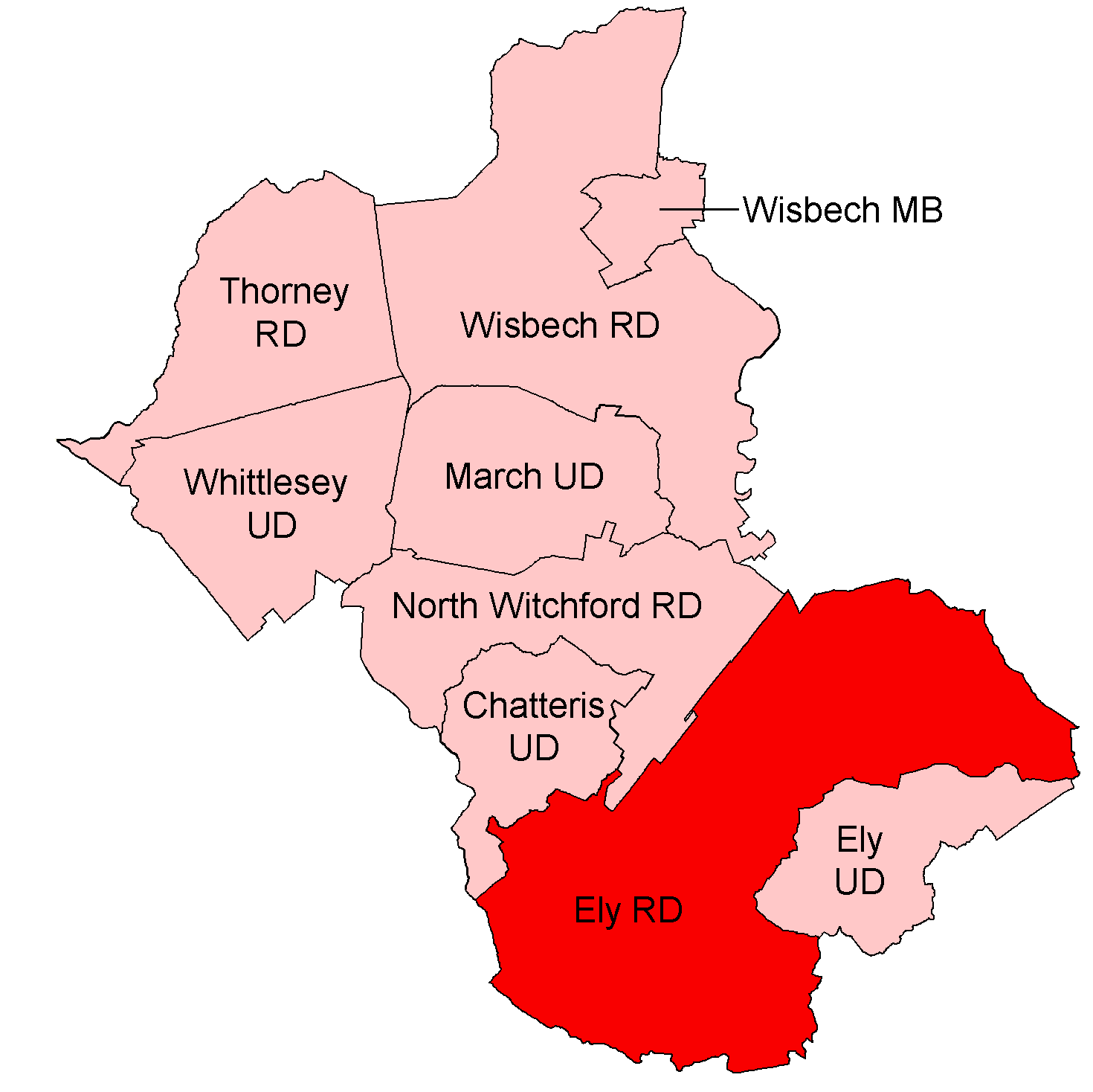 Ely Rural District, shown within the administrative county of the Isle of Ely. All boundaries shown are correct from 1935 to 1960. Ely RD itself was unchanged between 1933 and abolition in 1974.